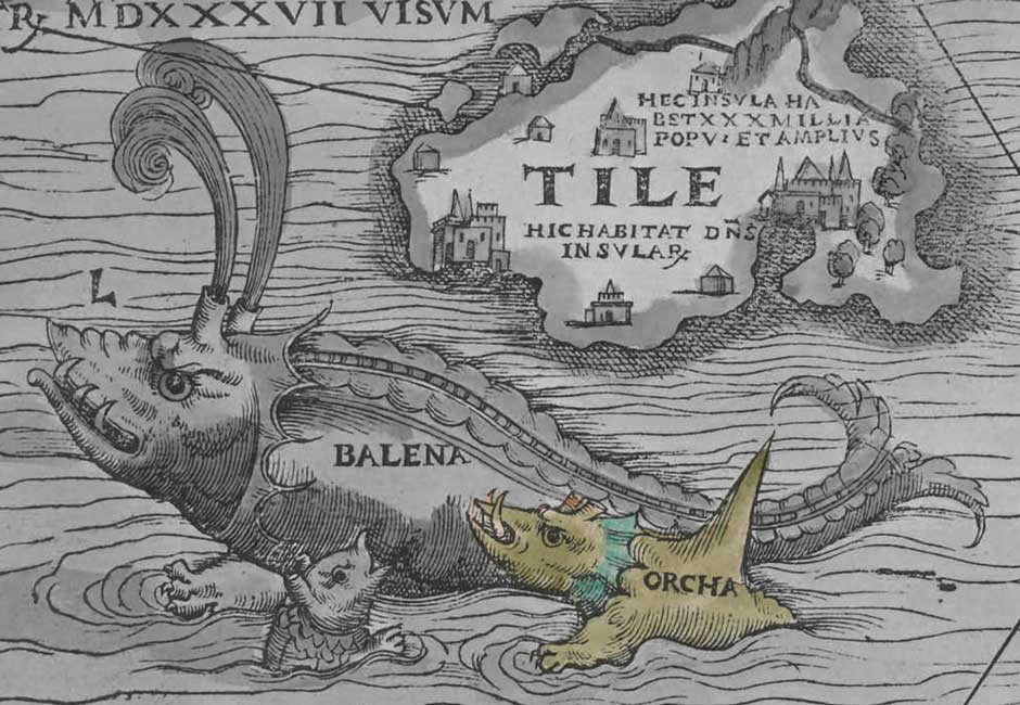 Orcha (Orcinus orca) from Carta Marina, 1539